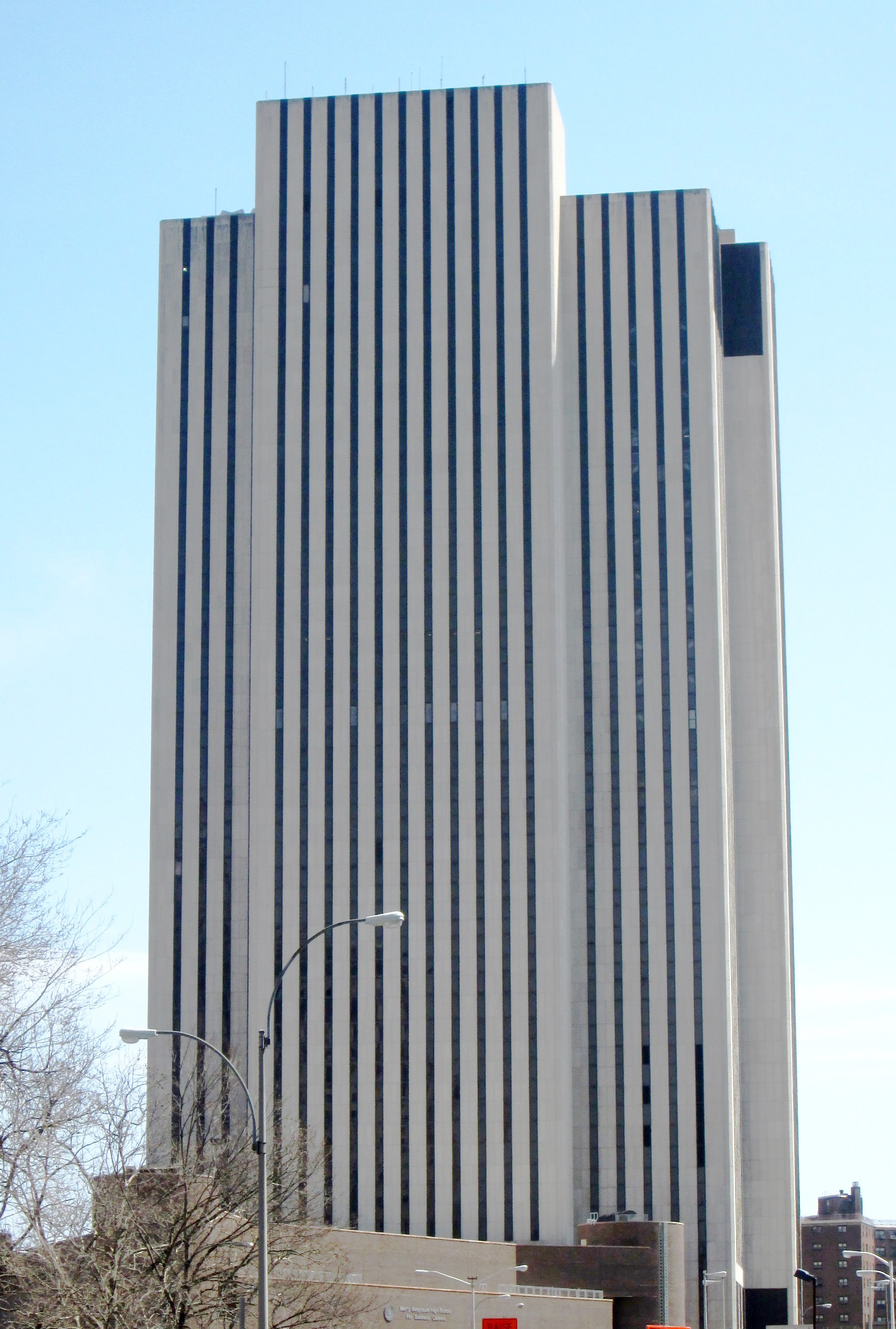 375 Pearl Street, also known as the Verizon Building and One Brooklyn Bridge Plaza, is a 32-story telephone switching building at the Manhattan end of the Brooklyn Bridge, built in 1975-76. In the foreground at the base of the building is the Murry Bergtraum High School for Business Careers.